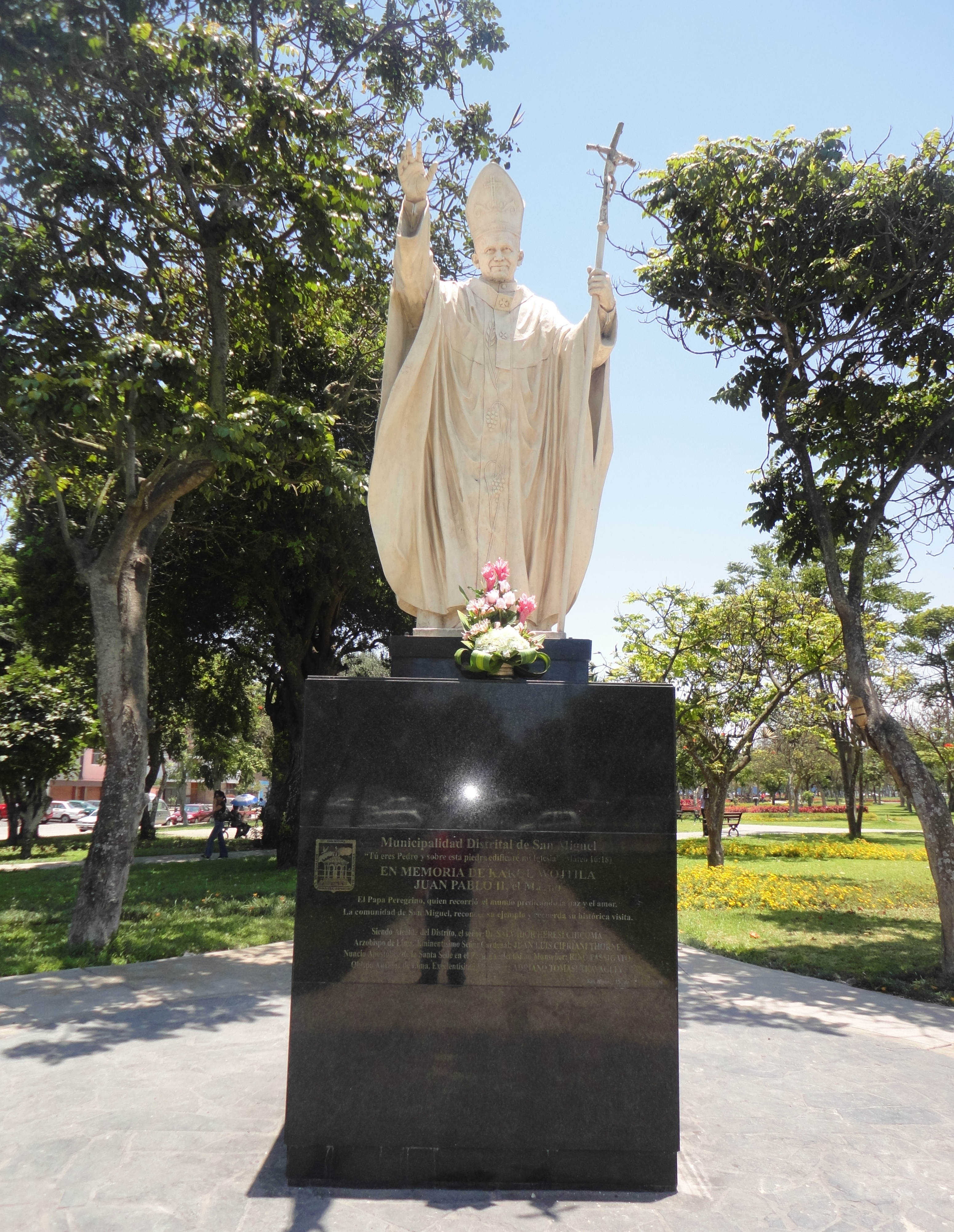 Lima (Peru), a monument of papa juan pablo II.